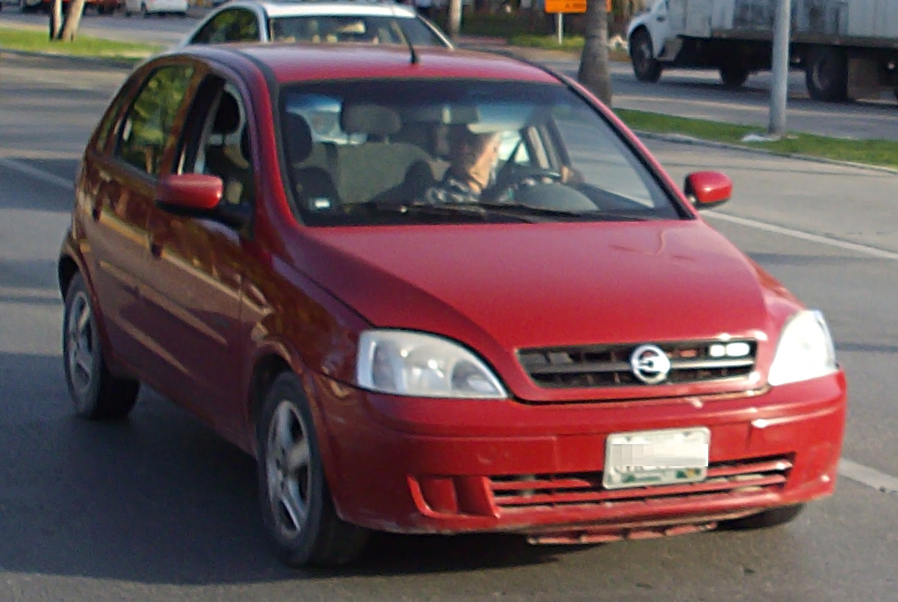 Chevrolet Corsa photographed in Cancun, Quintana Roo, Mexico.